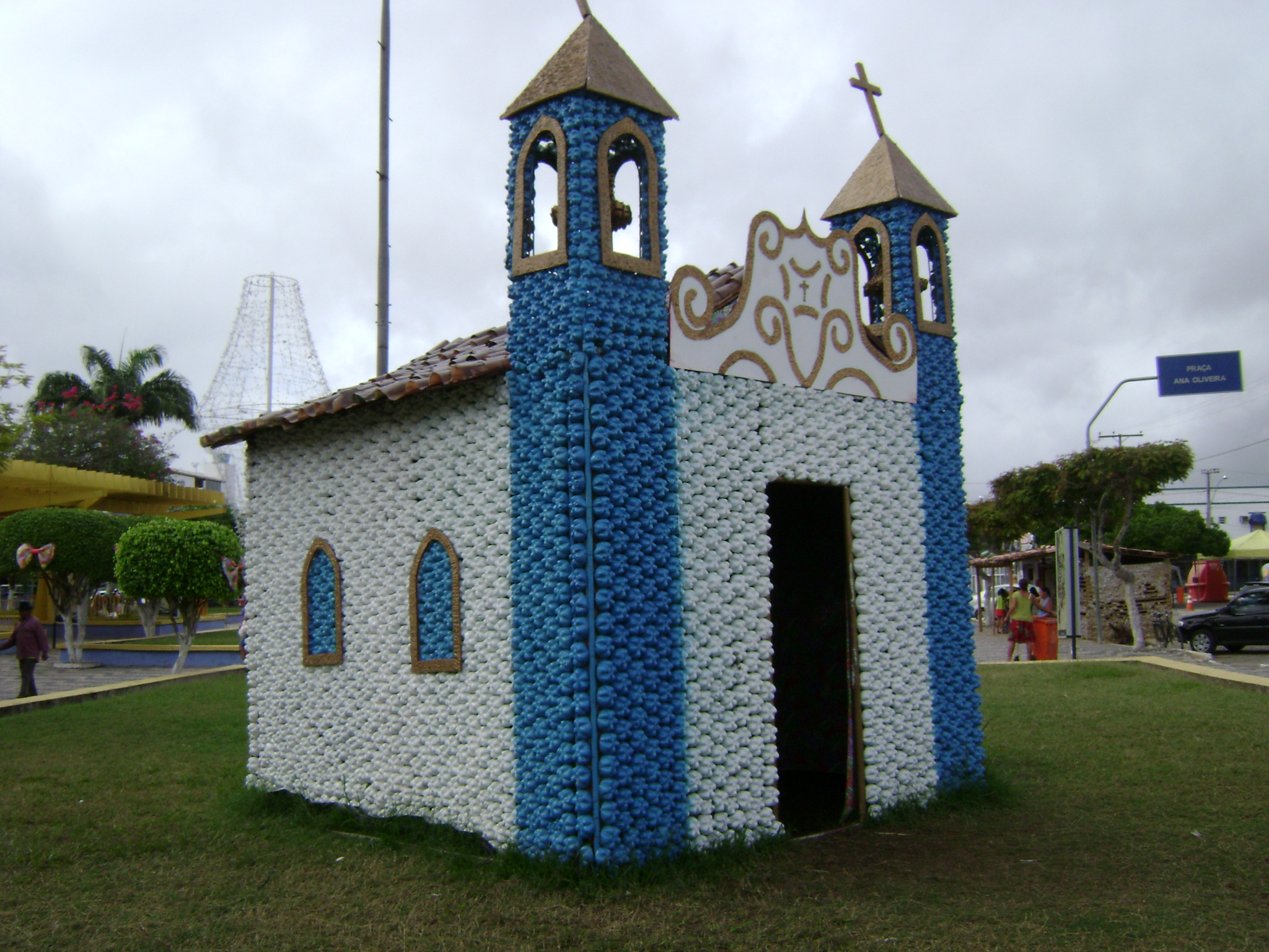 Igreja simbólica feita de sucata, em Caldas do Jorro, município de Tucano, Bahia, Brasil.